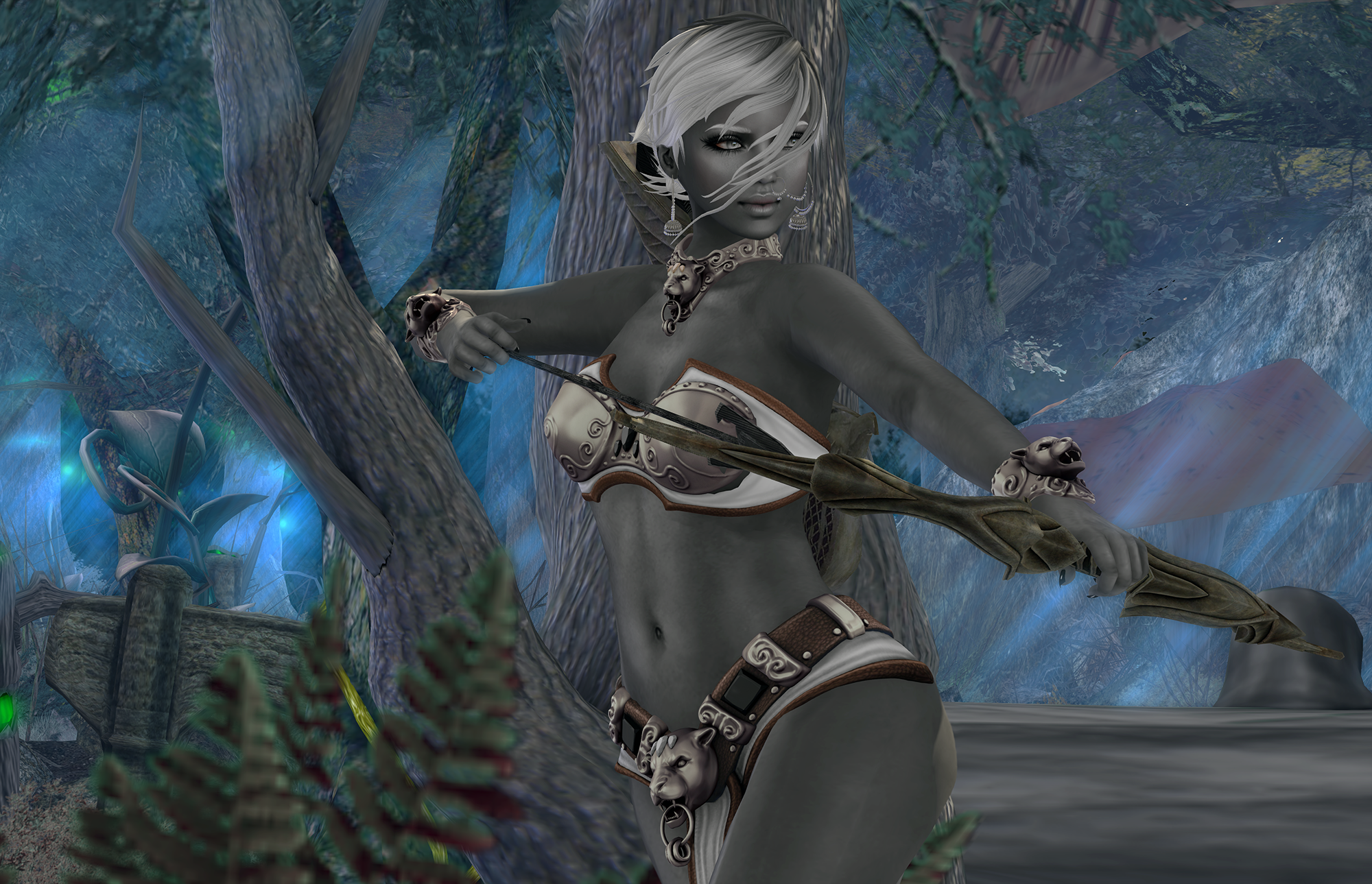 Female avatar from Second Life.